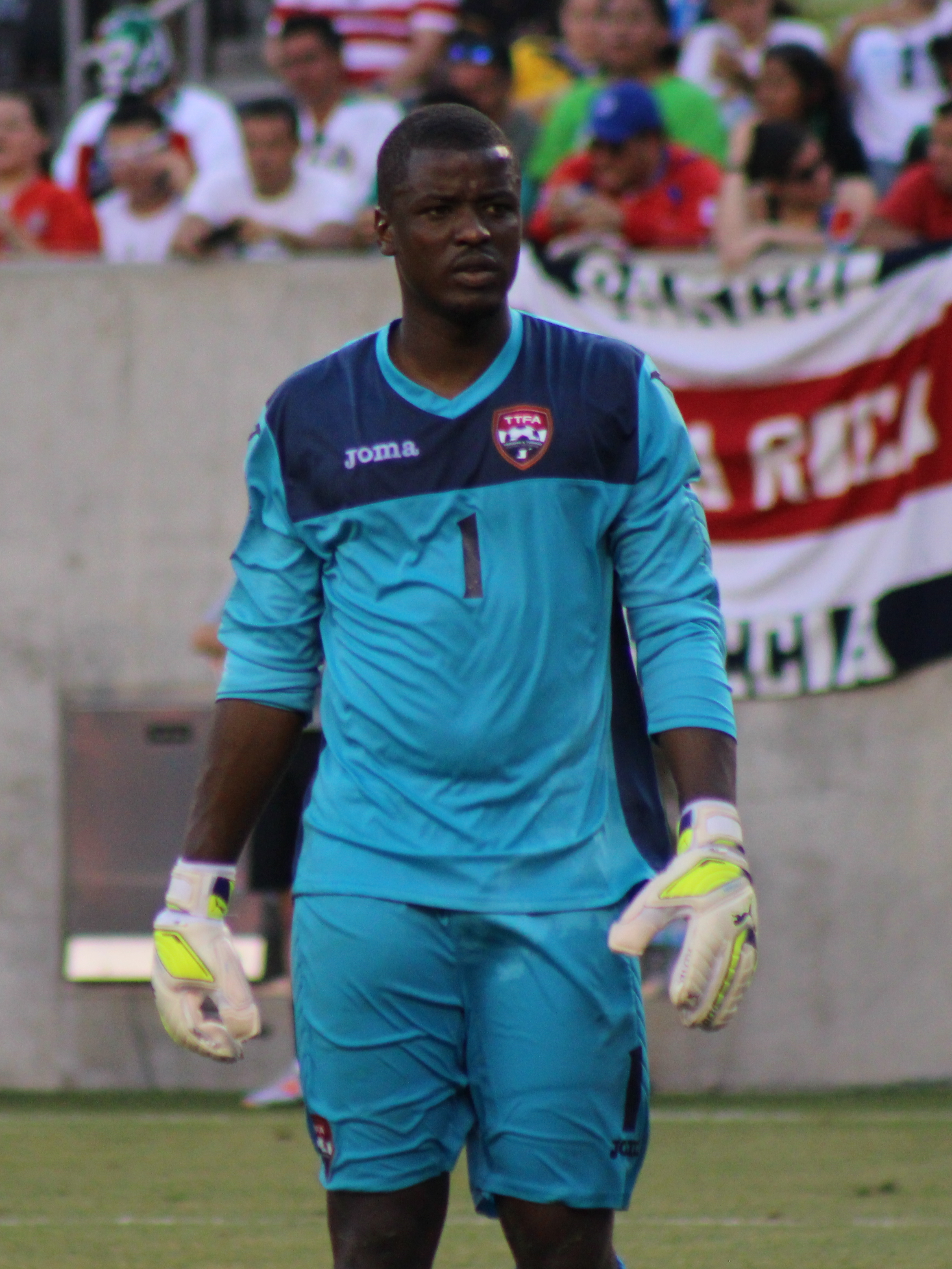 Marvin Phillip